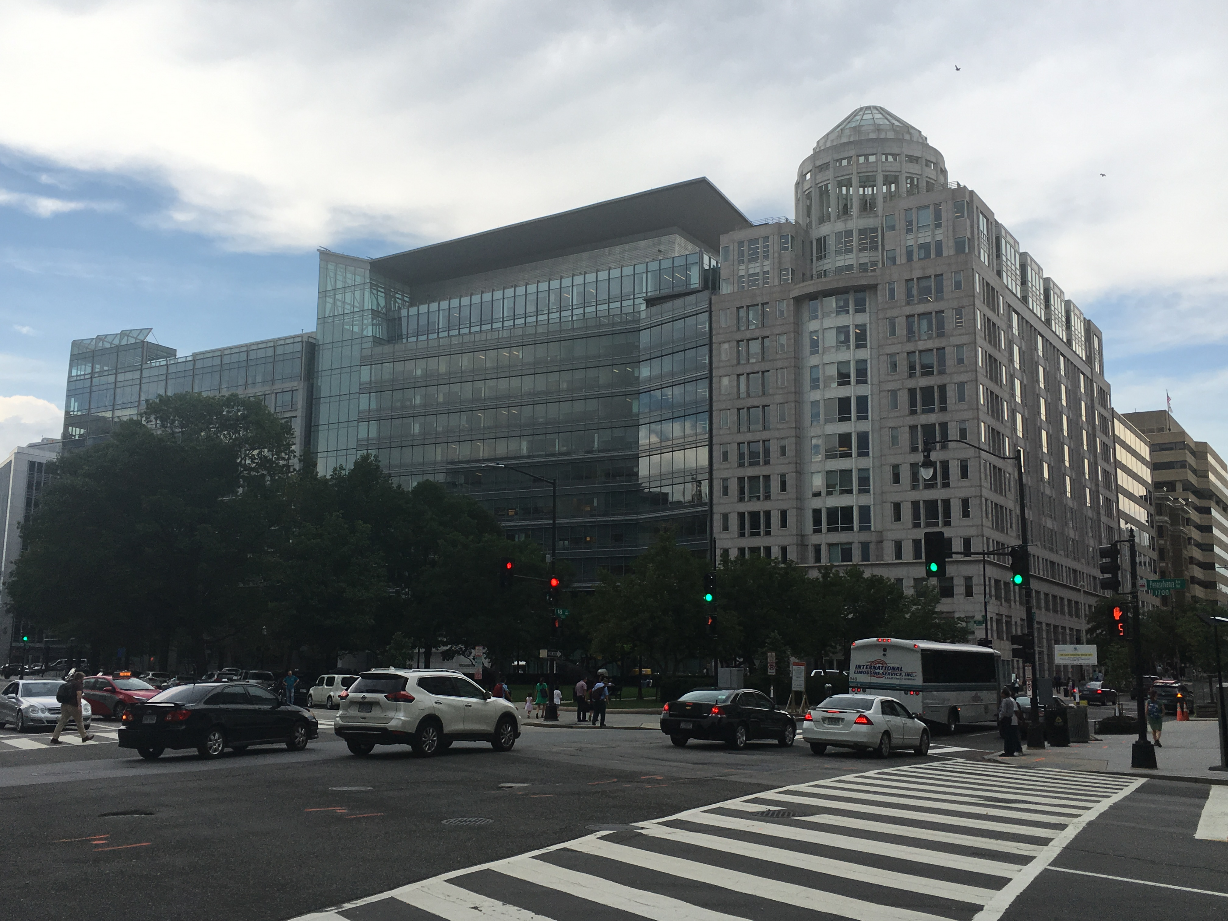 WilmerHale's DC office